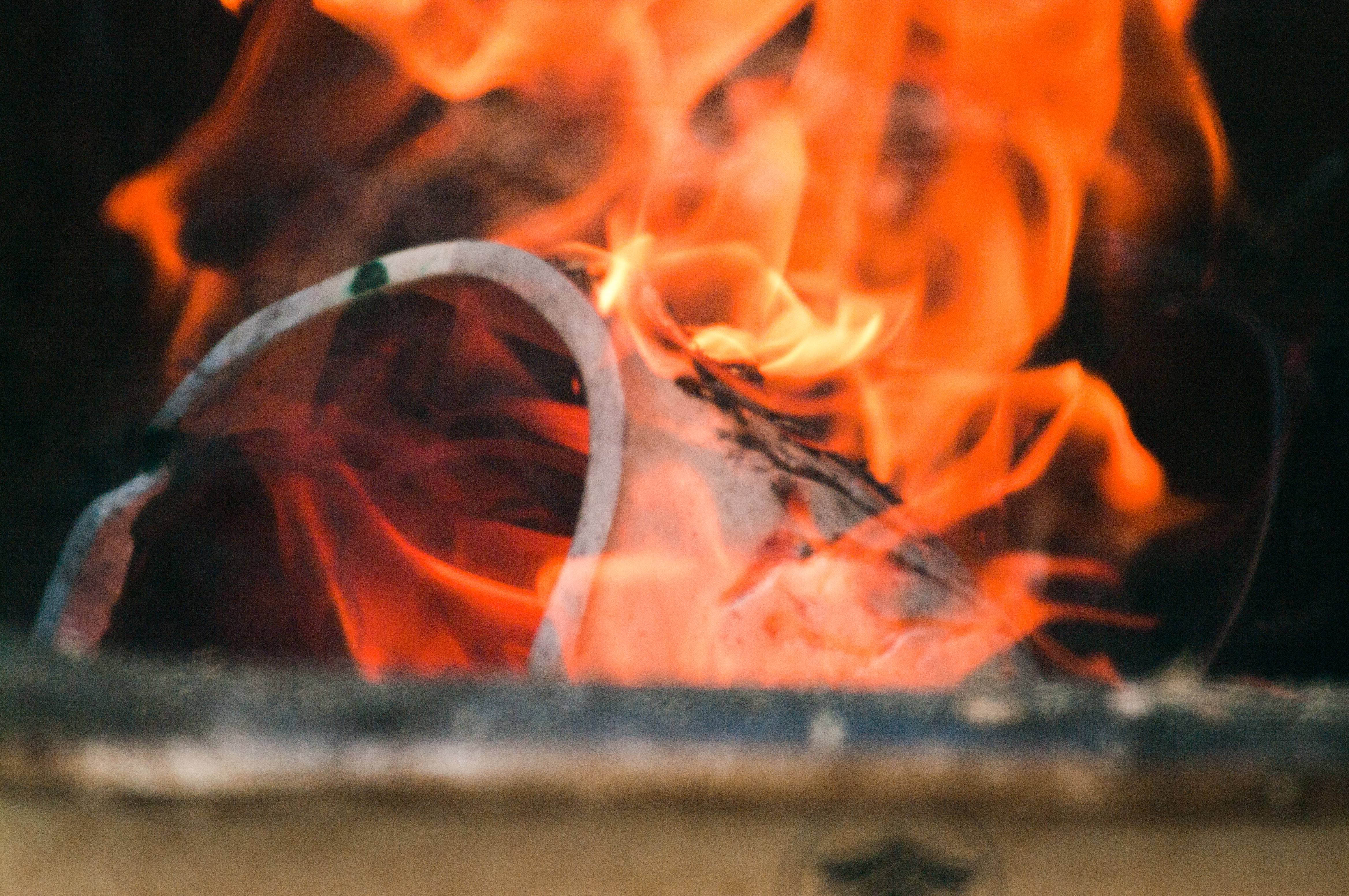 Raku technique in the making